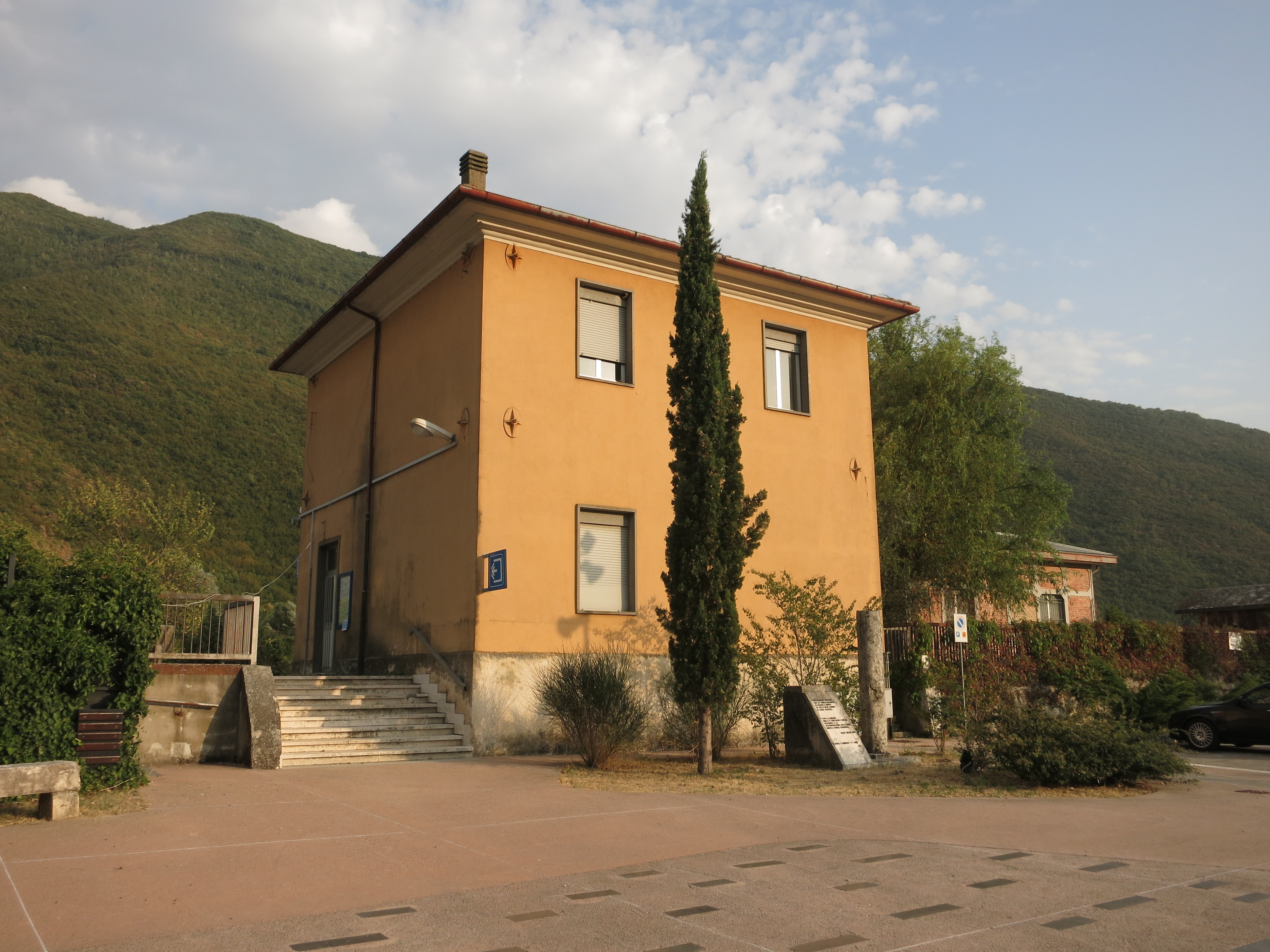 Castel Sant'Angelo train station (province of Rieti, Lazio, Italy), on the Terni-Rieti-L'Aquila-Sulmona line.